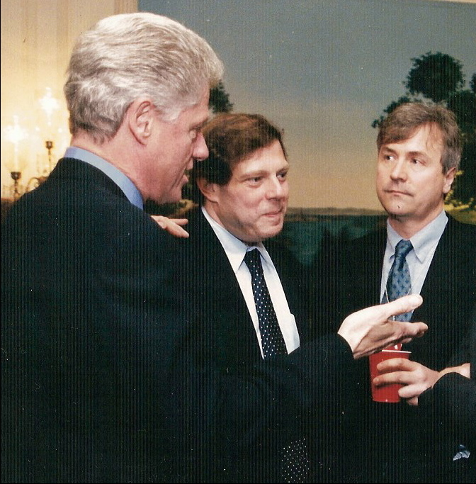 (from left to right): former President Bill Clinton, White House adviser Mark Penn, David Talbot.